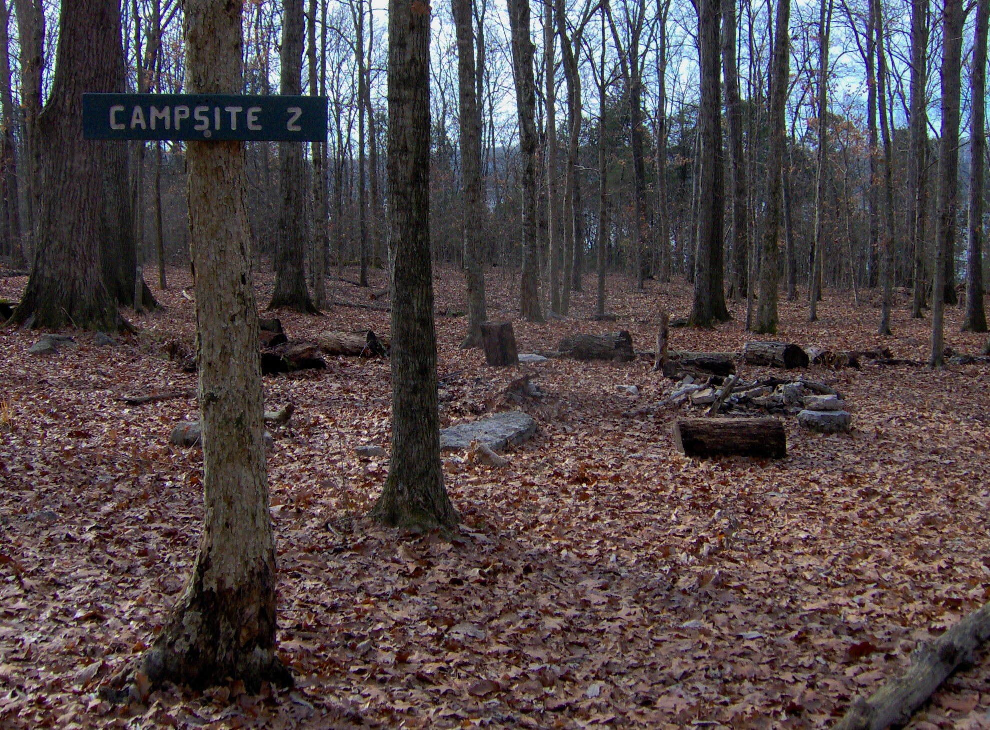 Campsite 2, the end of the Volunteer Trail at Long Hunter State Park near Nashville, Tennessee, in the southeastern United States. The Volunteer Trail winds for 5.5 miles, connecting the park's Couchville section and Baker's Grove section.